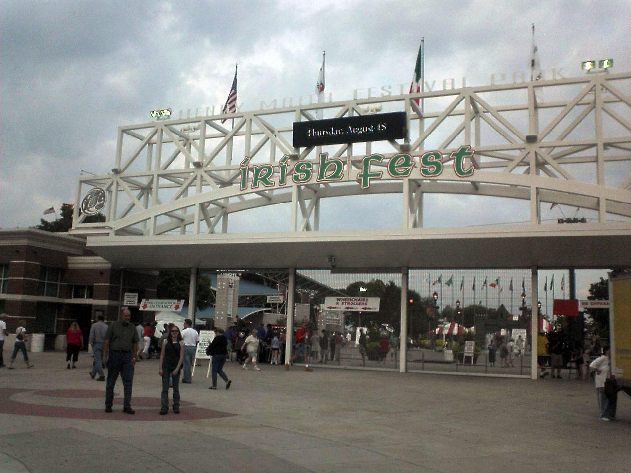 The mid gate of the Henry Maier Festival Park, taken 18 August 2005, by myself (Sutton Kinter IV), during Milwaukee Irish Fest.